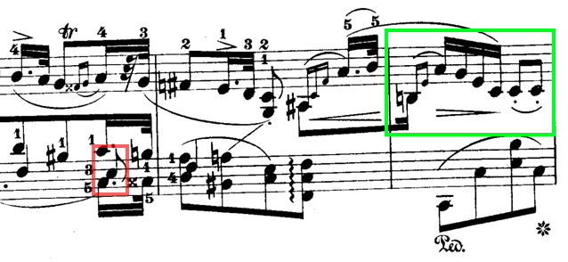 Excerpt of Nocturne Op. 15, no. 2 by Frédéric Chopin. This example demonstrates the challenges one frequently encounters in Optical Music Recognition: ambiguity and violations of musical syntax. The dot in the red box on the lower staff is to the right of a notehead as well as below a notehead and could be associated with both of them. The correct association is with the left notehead, because the alternative hypothesis would not make any sense, musically speaking. Similarly, the number of notes in the last measure (green box on upper staff) might be mistaken as exceeding the meter, resulting in an invalid number of notes in that measure. The musical notation includes an unusually complex tempo in 2 layers. The notation 5 in the arc above the notes in the treble clef in the preceding measure signals a quintuplet, 5 notes to be played over the same duration as 4 notes in the bass clef. Variations of this quintuplet are a thematic element of the piece. This 1915 Schirmer printing reflects Rafael Joseffy’s editing of the 1881 scores by Dr. Theodore Kullak that attempts to show additional interpretive nuances. In the measure shown the 4 underneath the arc in the treble clef and the 3 underneath the arc in the bass clef indicate that the 4 and the 3 should be played in the same interval. The 1881 score(s) don’t indicate this interpretive hint, only the quintuplet. See the footnotes on the 1st page of this nocturne in the 1881 Instructive Edition Of Chopin’s works, Volume V page 18 for further explanation and note the explicitly different interpretation. The complexity of Chopin’s works were difficult for both the composer and his contemporaries to capture in musical notation, frequently resulting in scores that are visually intimidating and complex.